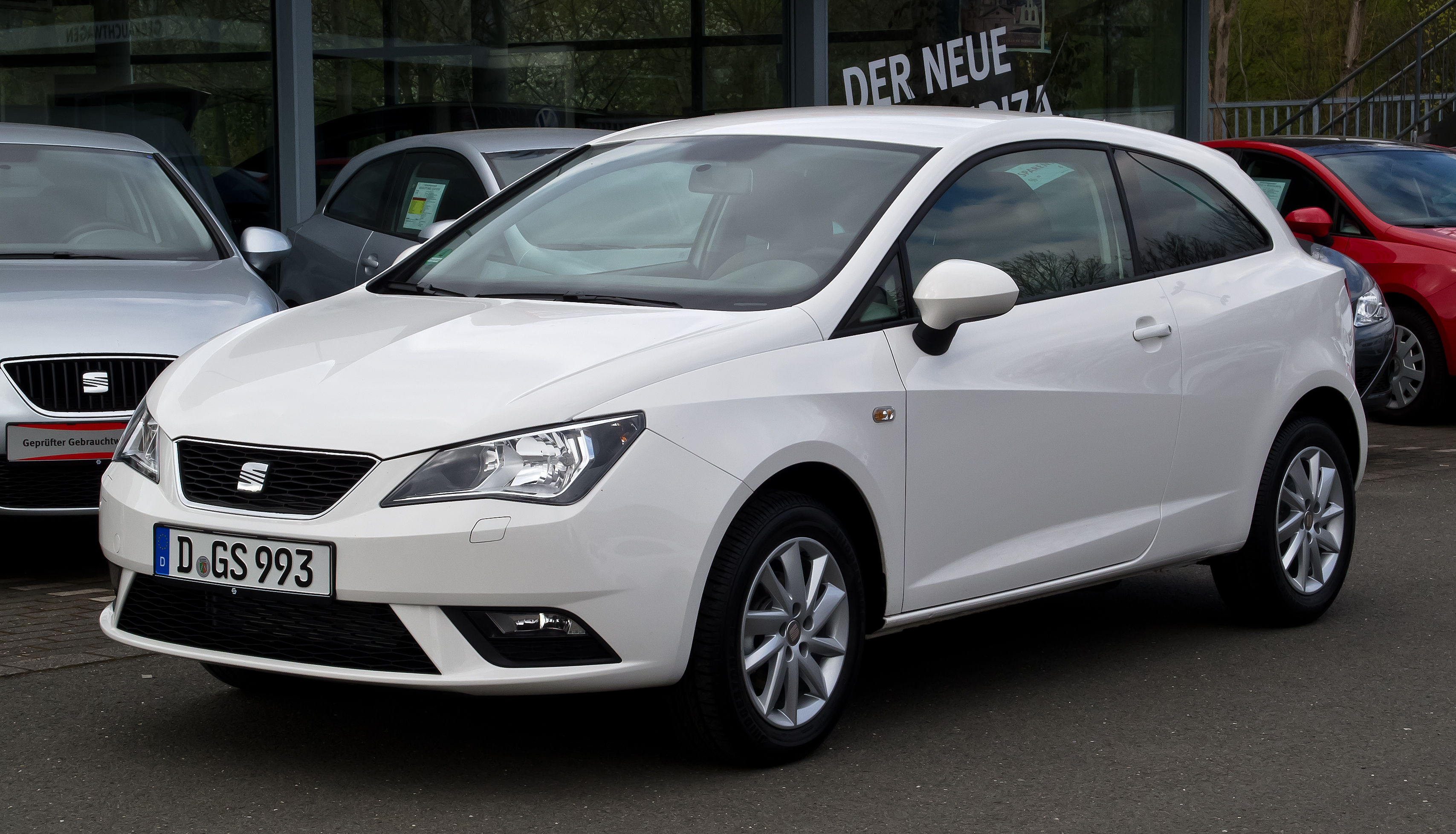 Seat Ibiza SC Style (6J, Facelift)